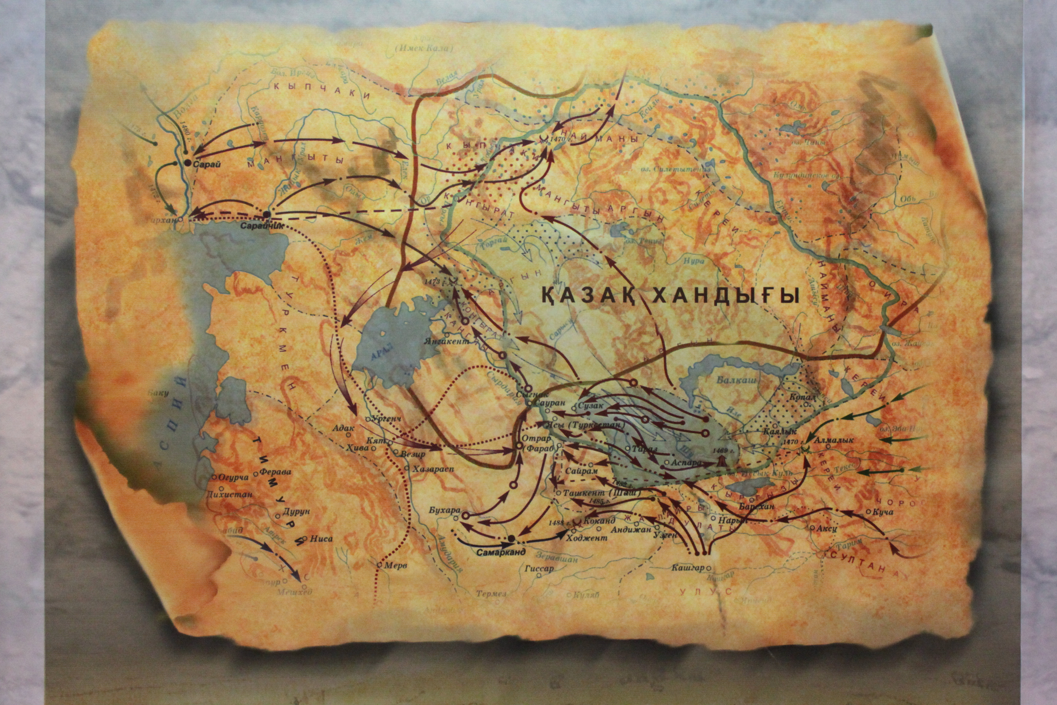 Қазақ хандығы